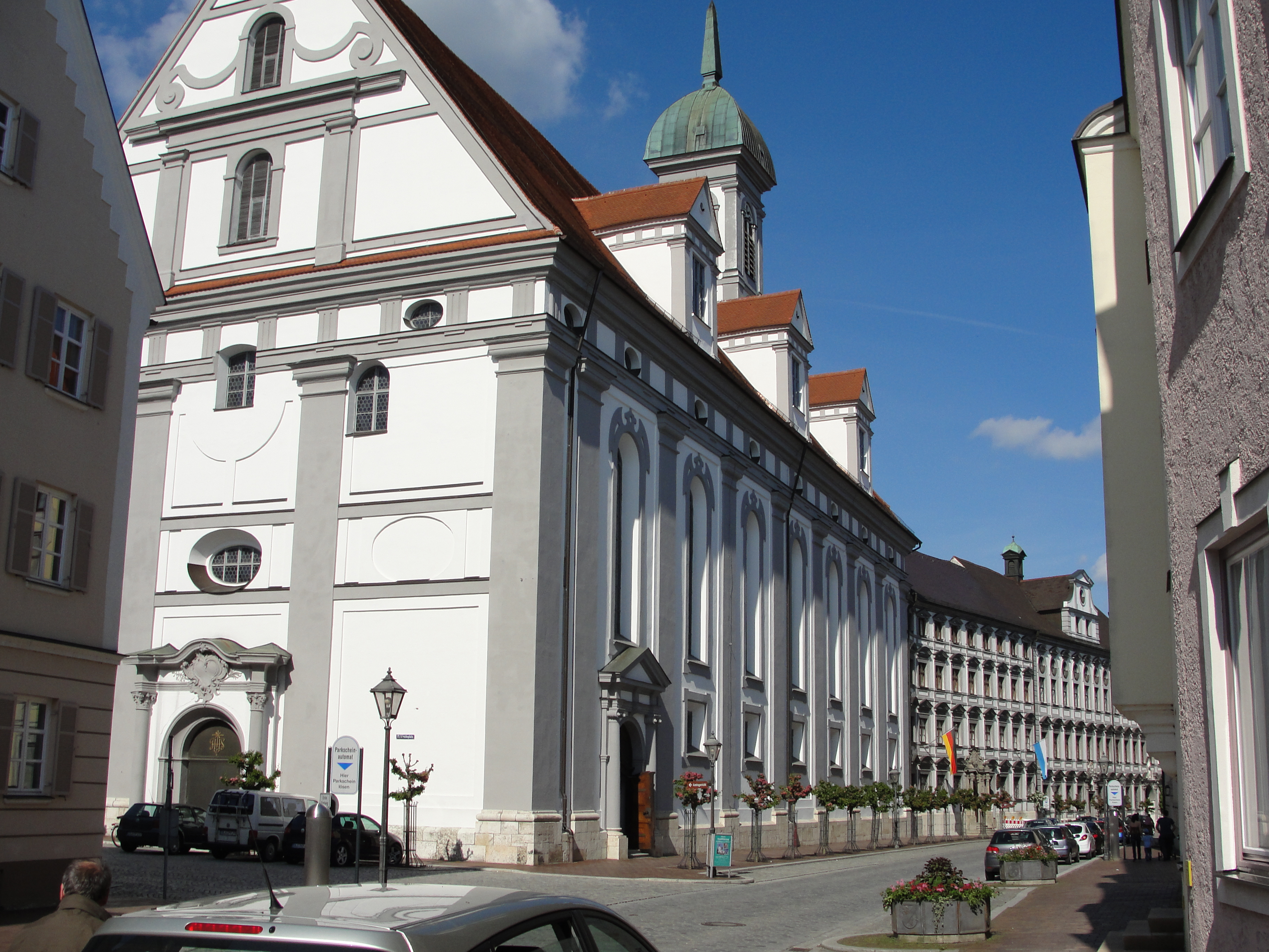 The study church (before) and the Jesuit College (behind) the present teacher training college.